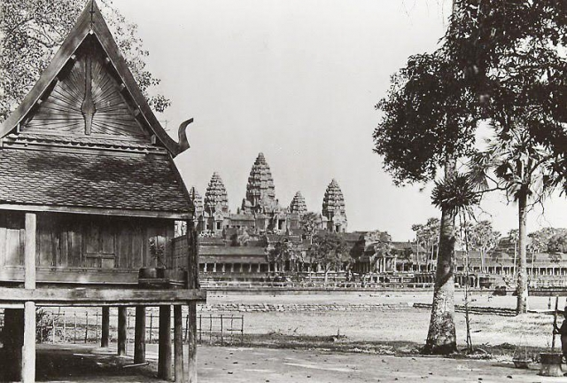 Picture taken between between 1919 and 1926